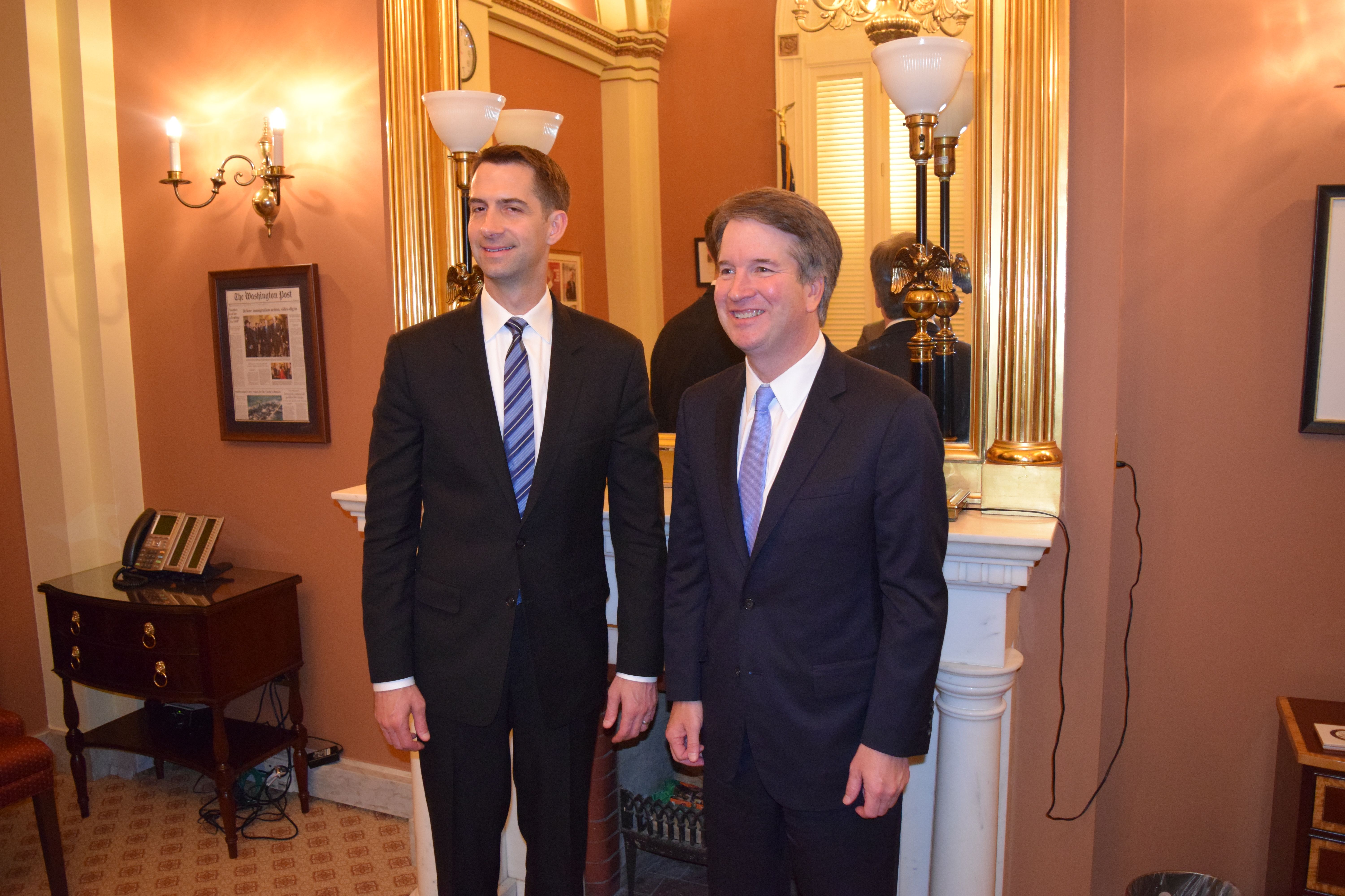 United States Senator Tom Cotton with Judge Brett Kavanaugh